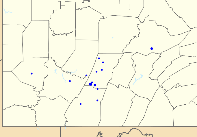 Footprint of AmeriServ Financial branches within southwestern Pennsylvania. Zip codes with more than one branch have progressively larger points.